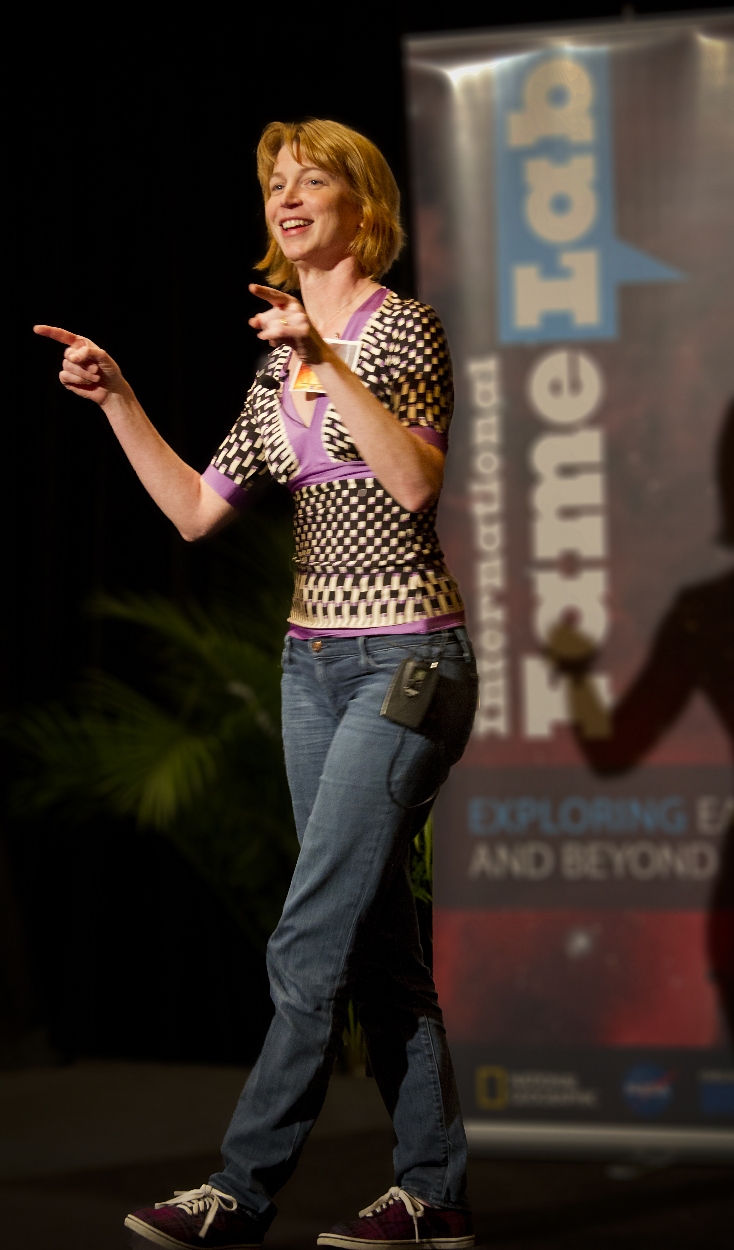 Cropped and adjusted file, Emily Lakdawalla was the halftime entertainment at the FameLab event at the Lunar and Planetary Science Conference in 2013.